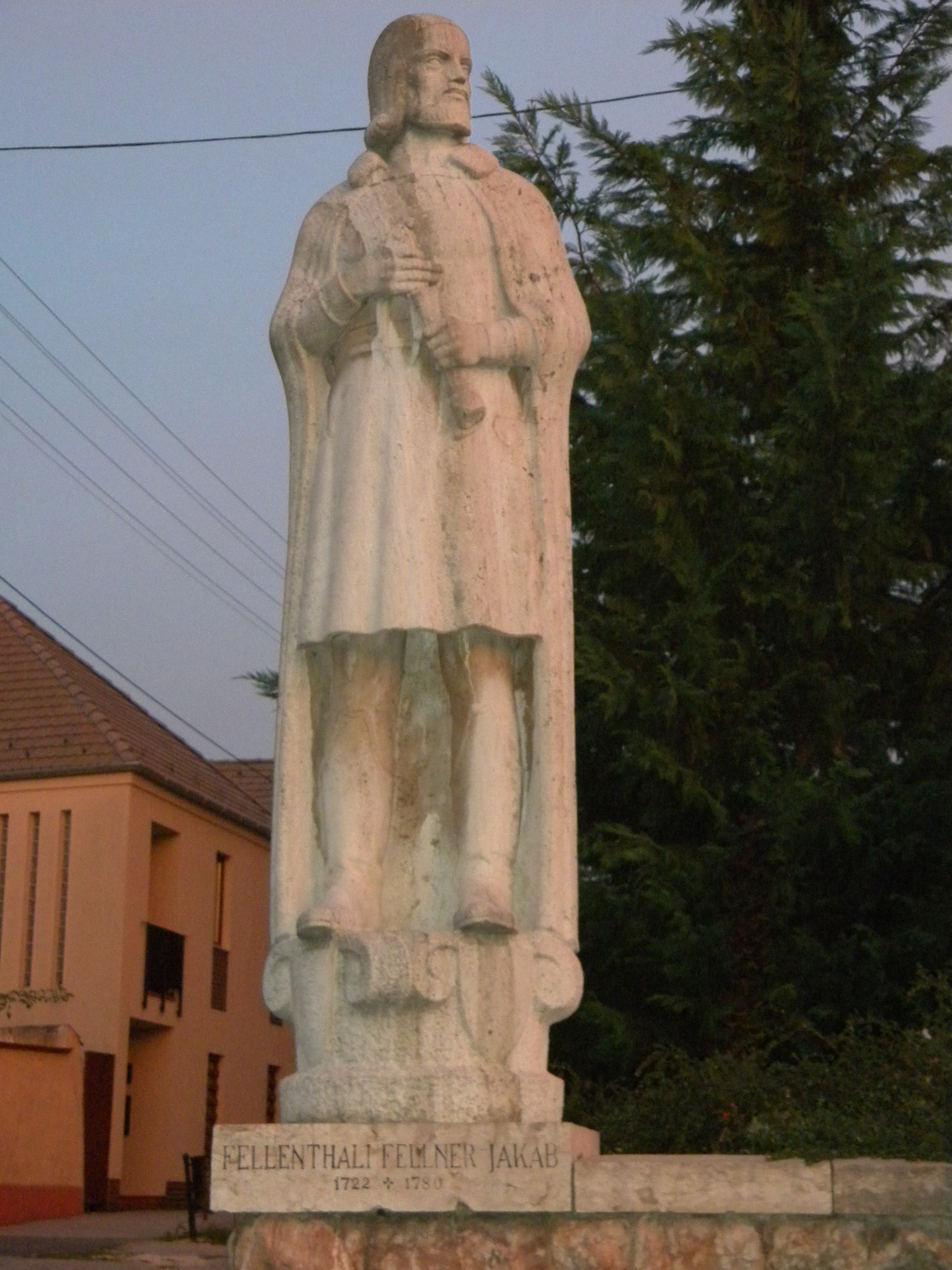 Location: Hungary, Tata